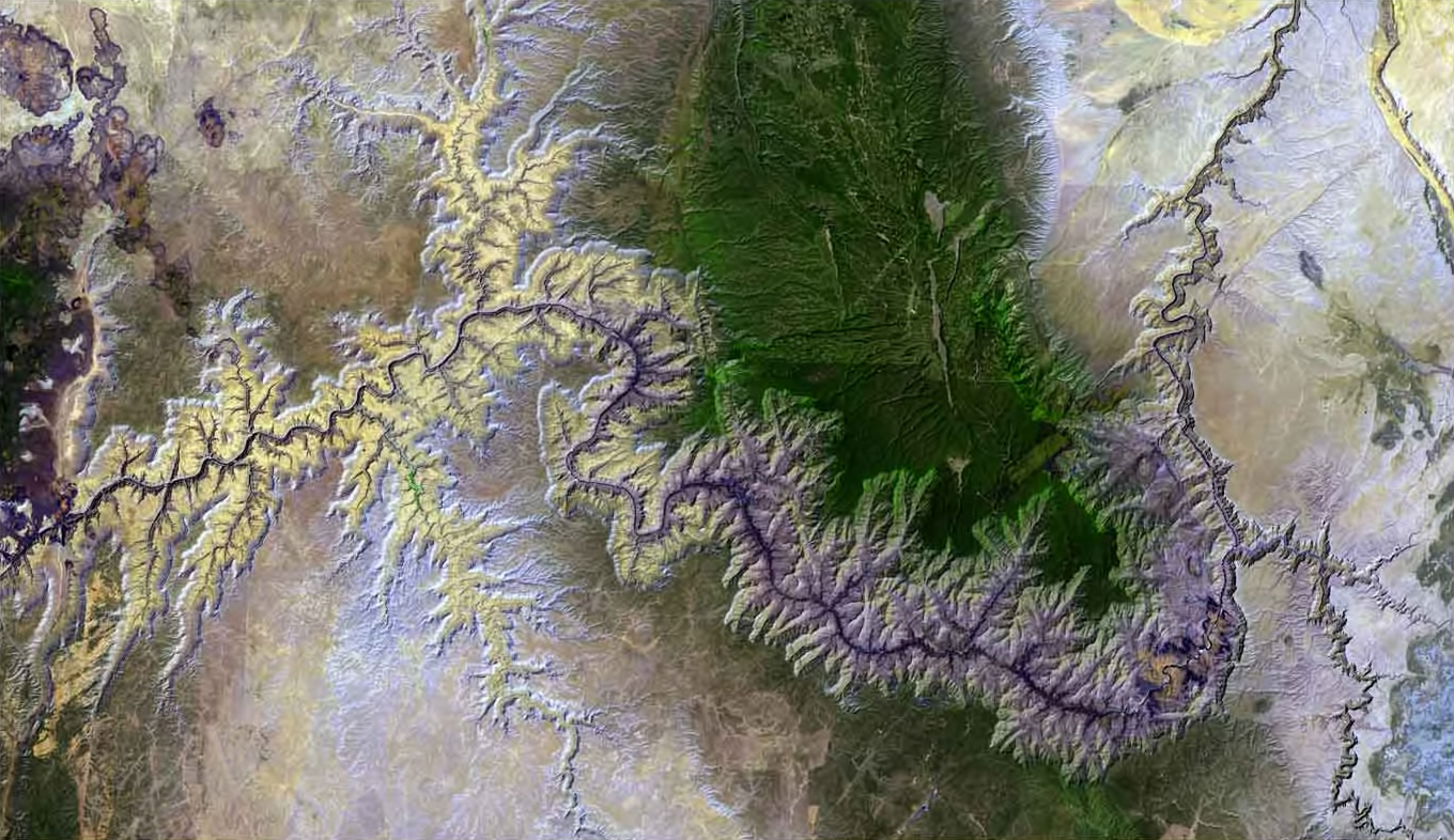 Satellite picture of the Grand Canyon, and Colorado River in the Grand Canyon — in northern Arizona. Credits The raw satellite imagery shown in these images was obtain from NASA and/or the US Geological Survey. Post-processing and production by